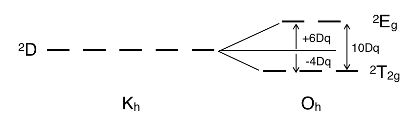 Octahedral splitting diagram for the doublet D term, including ligand field stabilization energy values in terms of Dq